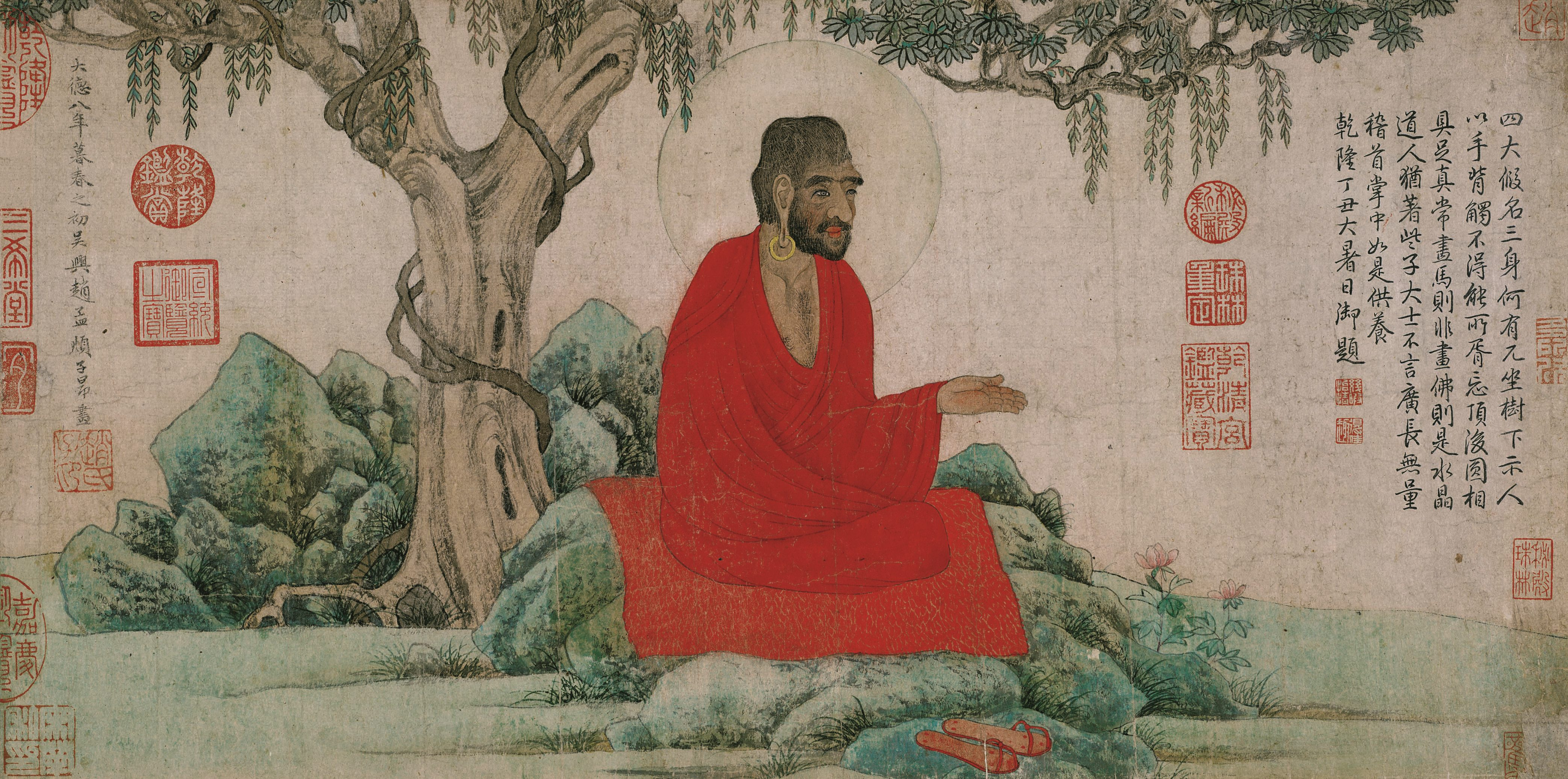 Zhao Mengfu Monk in a Red Robe, dated 1304 (26 x 52 cm)Liaoning Provincial Museum